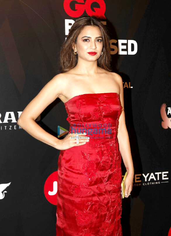 Kriti Kharbanda at the GQ Best Dressed Awards 2017